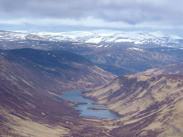 Loch Loch from summit of Ben Vuirich The oddly named Loch Loch taken 23rd April 2006 from the summit of Ben Vuirich, approximately 4km to the South.